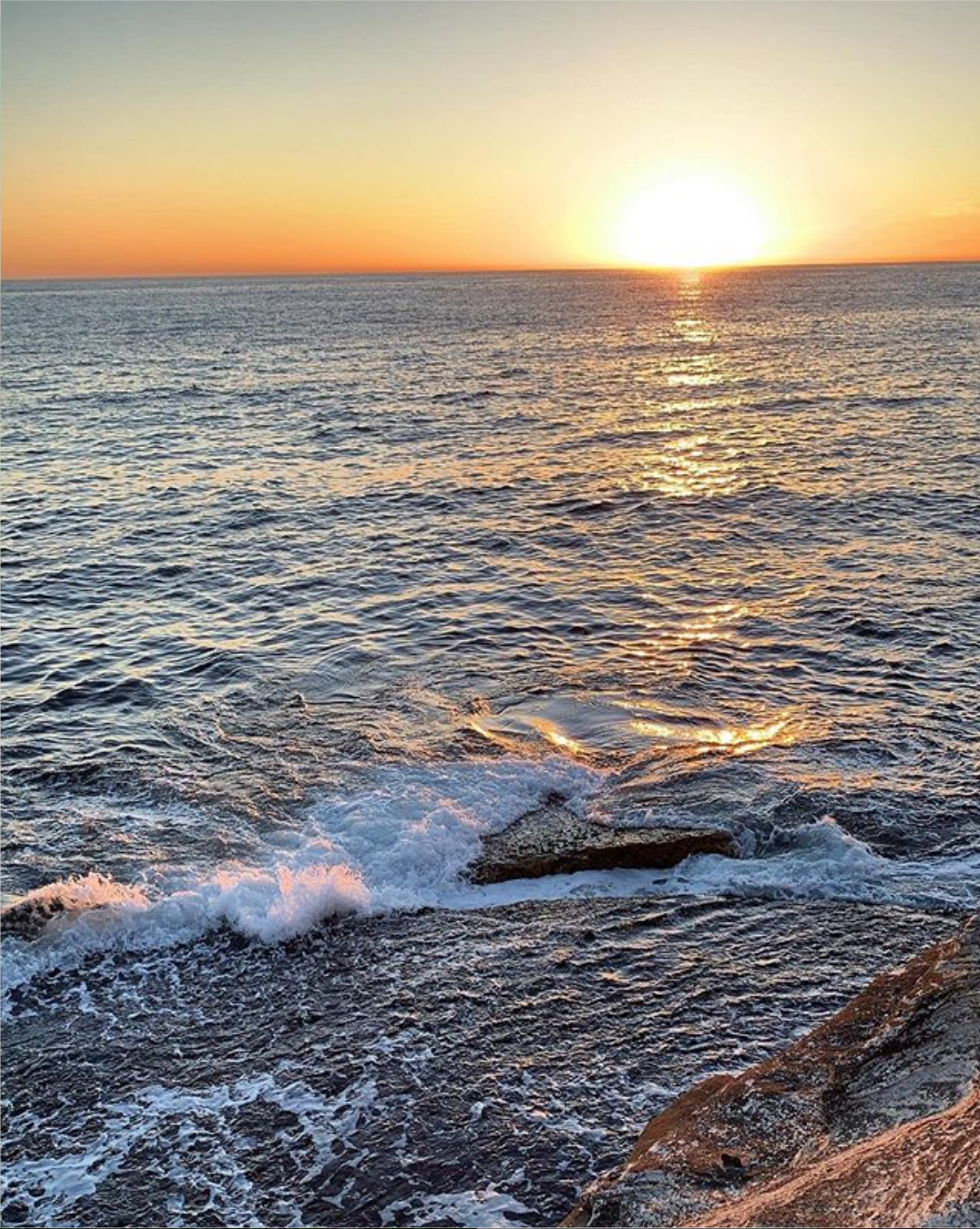 the picture was taken at 5am when the head of the sun poked over the horizan